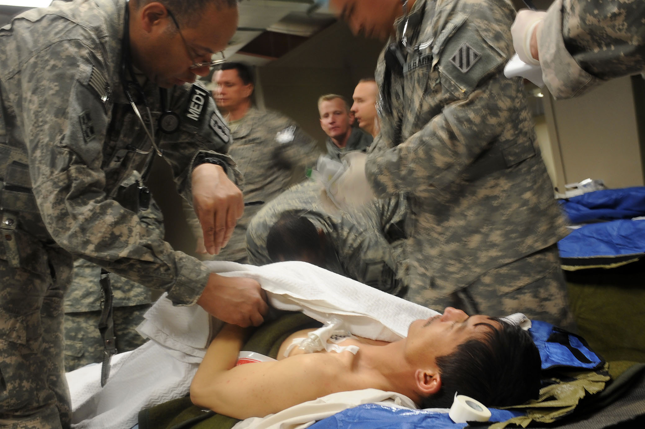 The following is the author's description of the photograph quoted directly from the photograph's Flickr page. "Army medical personnel treats of one of the survivors of the Salang Pass avalanche at the Triage on the Bagram Airfield in Parwan, Afghanistan, Feb. 9. He along with many other survivors were treated and feed a hot meal as a part of the Afghanistan Avalanche Recovery Mission Joint Combat Camera Afghanistan Photo by Spc. Brandon Evans Date: 02.09.2010 Location: BAGRAM, AF Related Photos: "